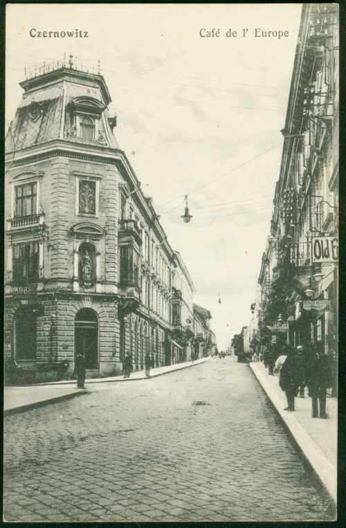 Cafe de l'Europe, Herrengasse